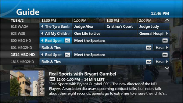 Microsoft Mediaroom TV Guide